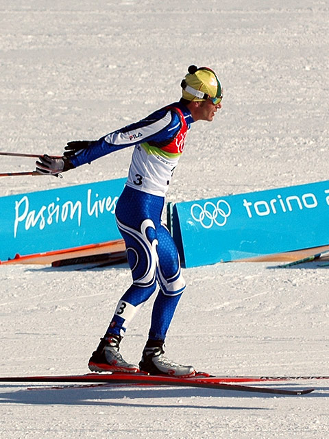 Pietro Piller Cottrer at the 2006 Winter Olympics in Torino.